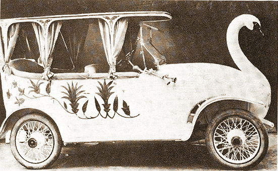 1910 Brooke 15/20 hp (special body)